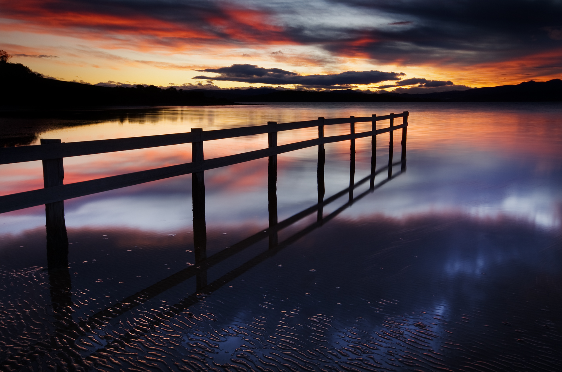 Mortimer Bay, Sunset, South Arm, Tasmania, Australia